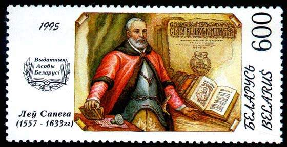 Stamp of Belarus